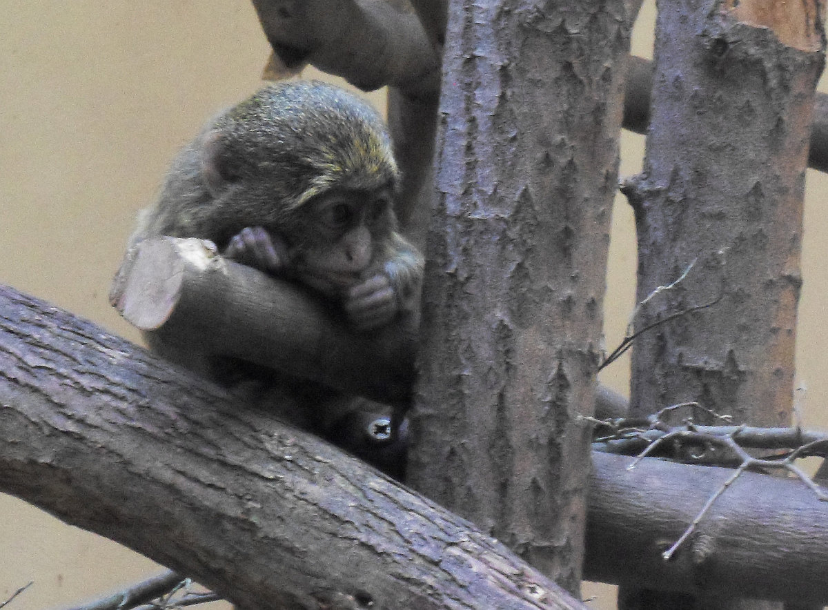 De Brazza's Monkey, young